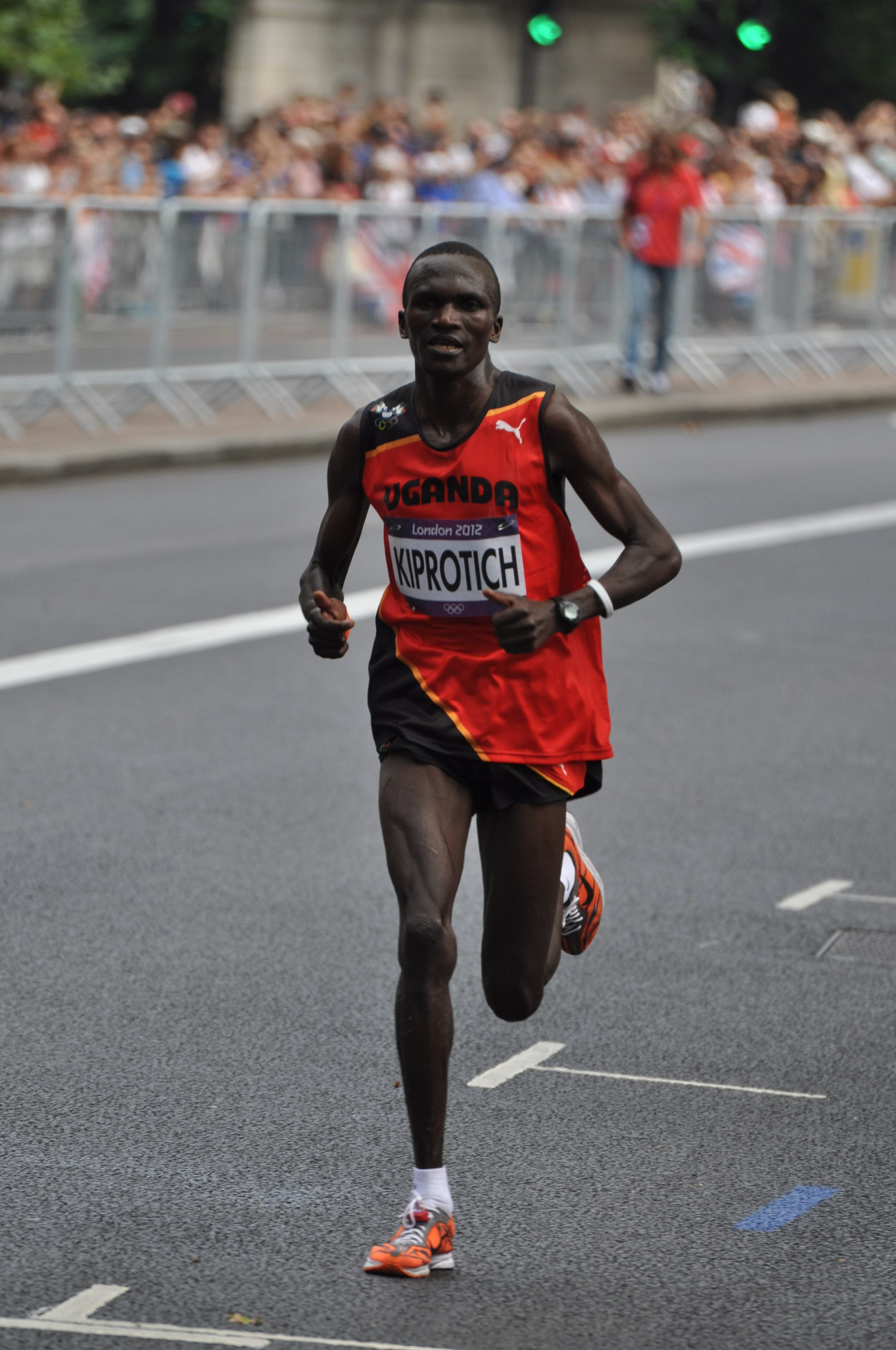 The men's marathon of the 2012 Summer Olympics in London, UK took place on an Olympic marathon street course on Sunday 12th August 2012 at 11:00. This was the final day of the 30th Olympic Games. The London 2012 marathon course is the standard Olympic distance of 26 miles 385 yards and consists of one short lap of approx 2.2 miles followed by three longer laps of 8 miles. The course began on The Mall and travelled past several of the most famous London landmarks. The start/finish line was near the Victoria Memorial. These photographs were taken at the Victoria Embankment. This featured several times on the looped course. The approximate location from the photographs is shown in the Google StreetView Link below. Stephen Kiprotich won in 2 hours, 8 minutes, 1 second as he pulled away from the Kenyan duo of Abel Kirui and Wilson Kiprotich Kipsang.